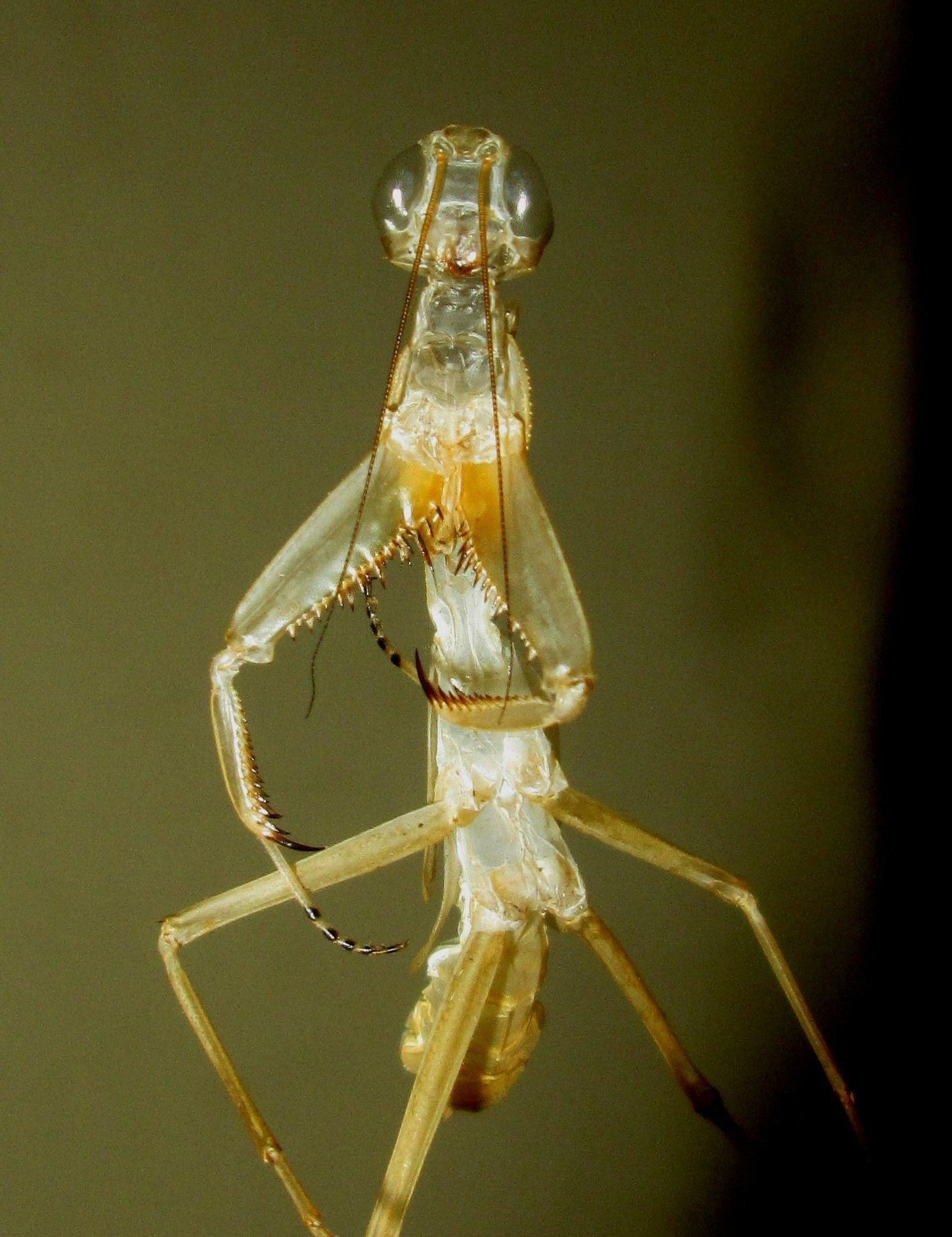 The molted exoskeleton of an African mantis (Sphodromantis gastrica).